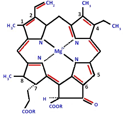 cloroplastin